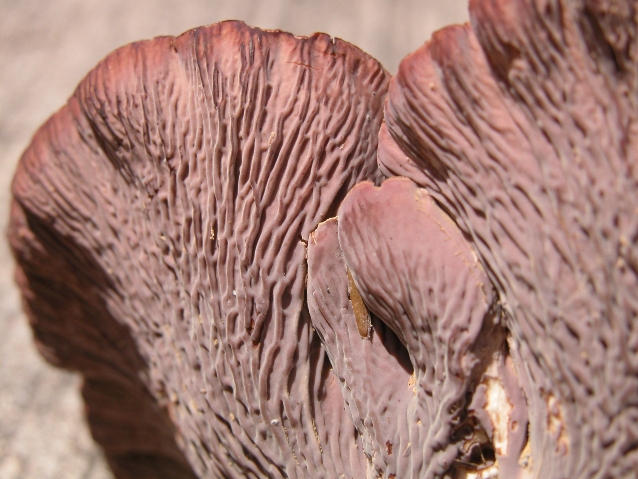 A close-up of the hymenium of Gomphus clavatus (Pers.) Gray. Specimen photographed in the Sieg Conference Center, Clinton Co, PA. Part of the MSA foray, 2008.